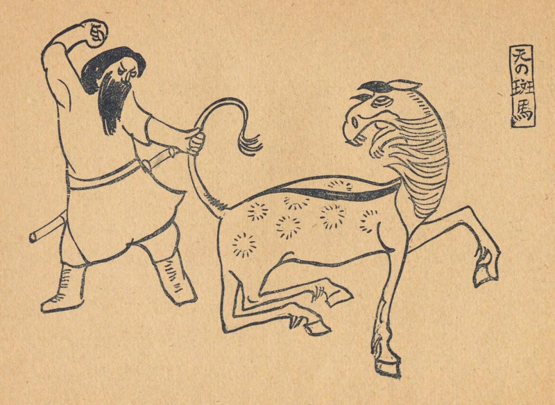 Susanoo flays the Heavenly Spotted Horse (Ame no Fuchikoma).